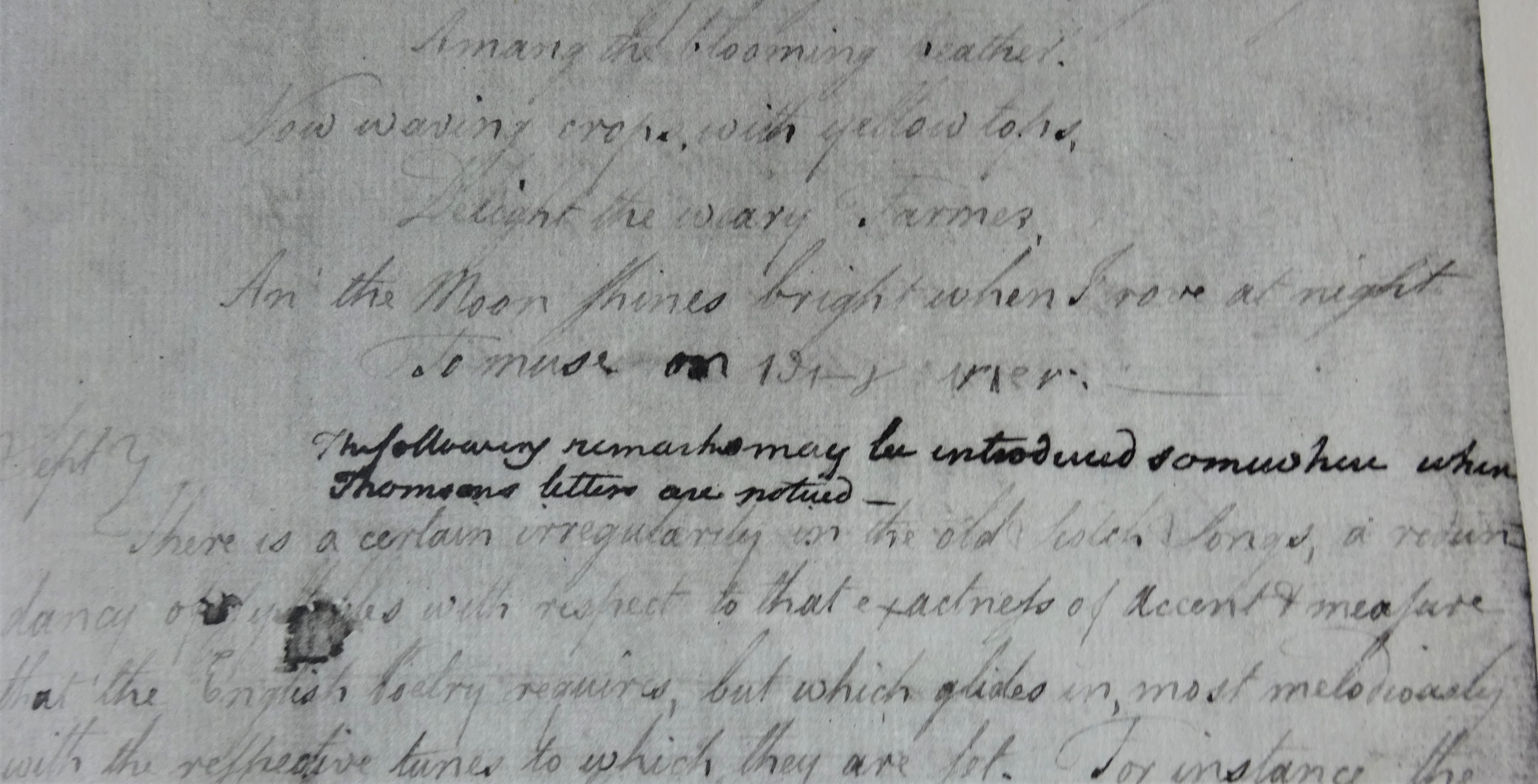 Burns's use of a cypher , Robert Burns's Commonplace Book 1783 - 1785. Page 37. Possibly to hide the name 'Jeany Armour' from his youngest sister, Isabella.